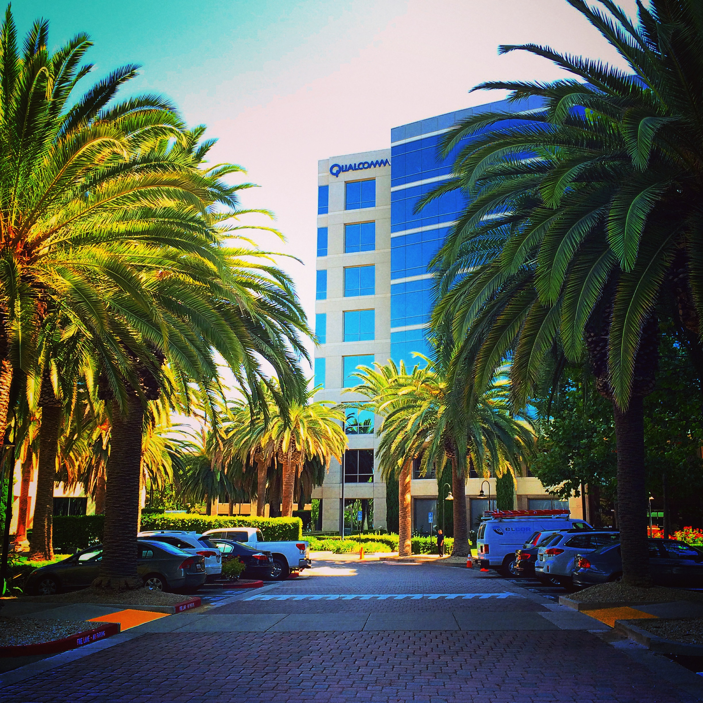 Qualcomm Atheros photo by Emily Allstot